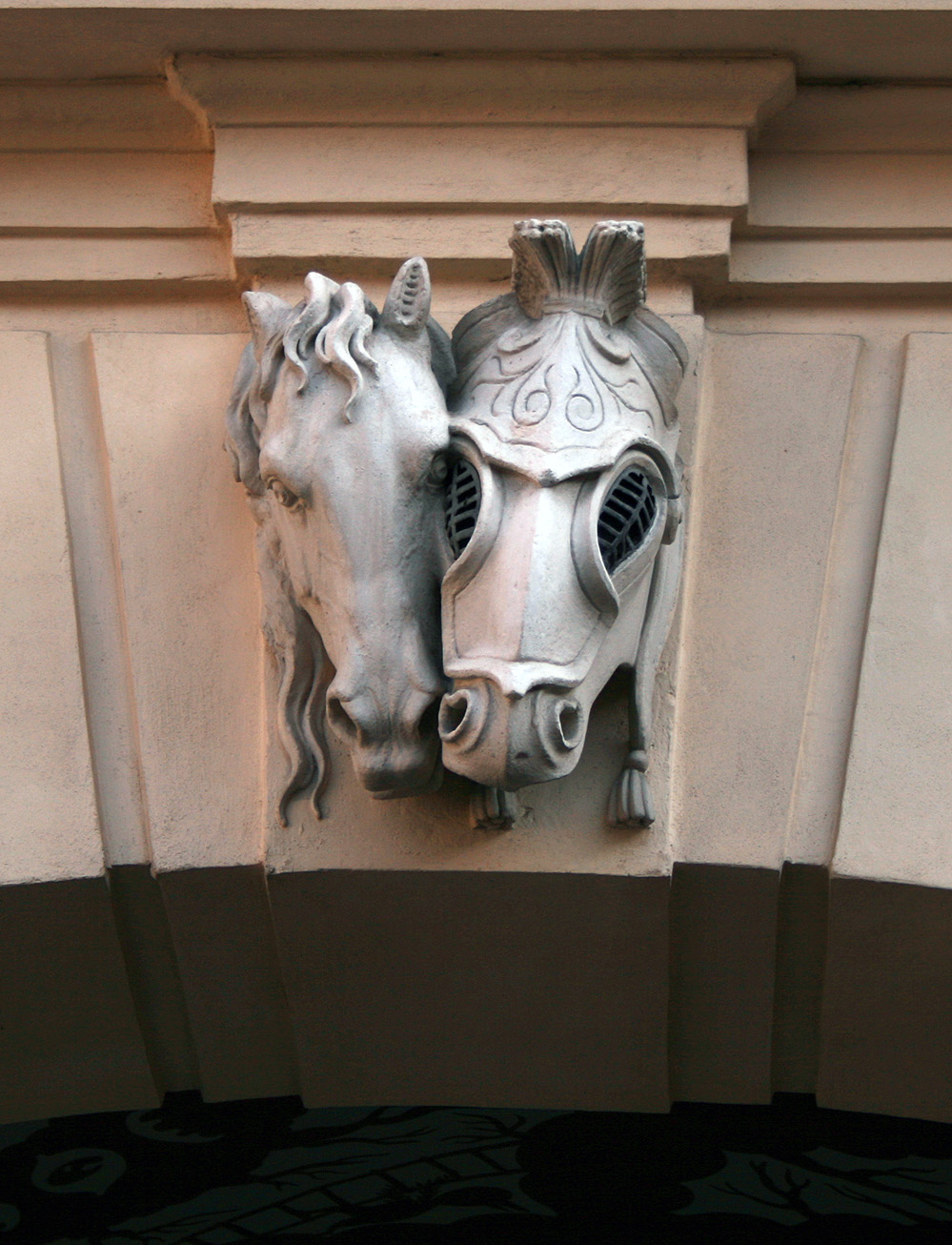 Austria, Vienna, Museumsquartier